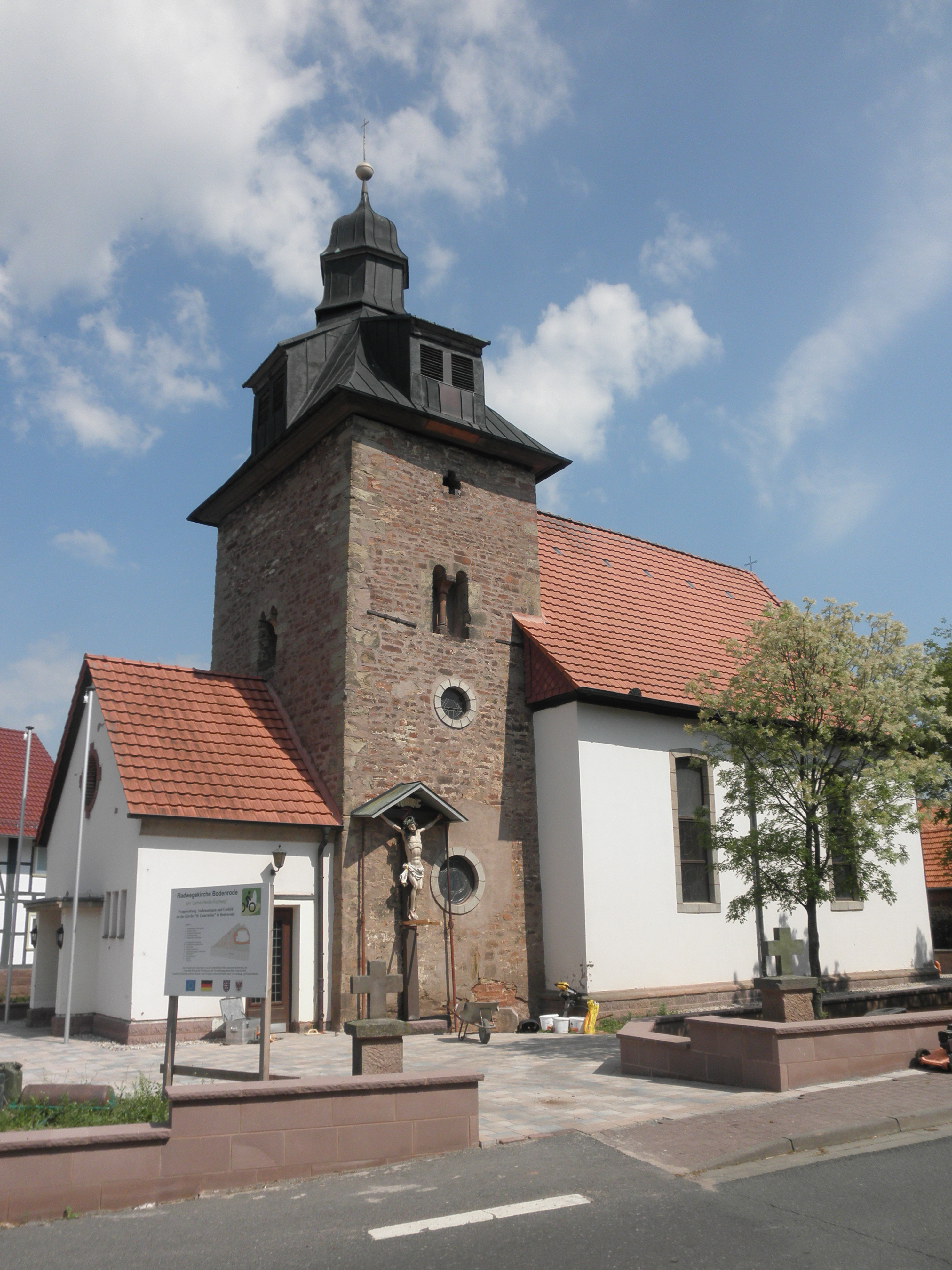 Church in Bodenrode in Thuringia